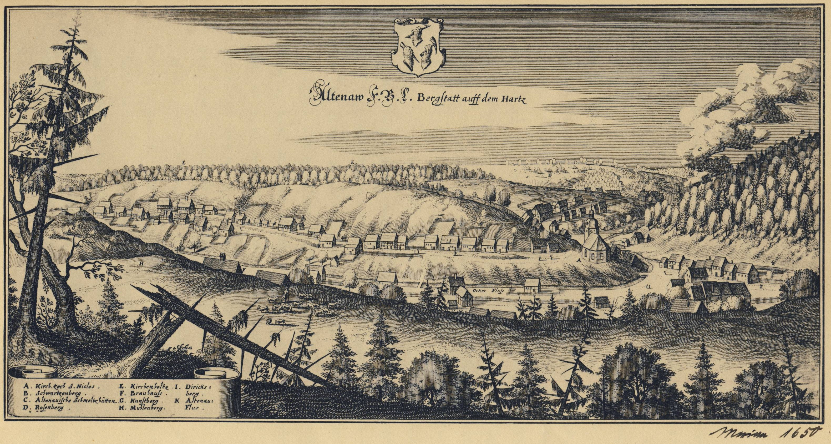 Altenau, Bergstatt auff dem Hartz, Historical view over Altenau